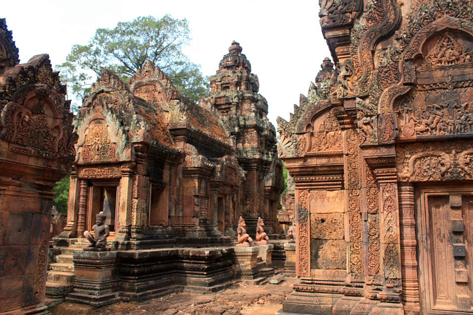 The intricate reliefs carving of red colored sandstone Banteay Srei temple, Siem Reap, Cambodia.